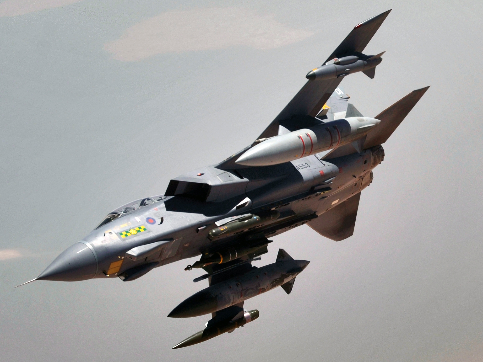 Original description: Royal air force Flight Lts. James Freeborough, pilot, and Stewart Lawson, weapons officer, position their Panavia Tornado GR.4 aircraft behind a U.S. Air Force Boeing KC-135R/T Stratotanker aircraft for an air refueling over Iraq on 14 June 2006. The Tornado and crew were from No. 617th Squadron, RAF Lossiemouth (UK). The KC-135R/T and crew were deployed to the 340th Expeditionary Air Refueling Squadron, Southwest Asia, from their home unit 905th Air Refueling Squadron, Grand Forks Air Force Base, North Dakota (USA). Note though that the squadron markings on the aircraft indicate No. 31 Squadron which has a golden mullet in its insignia.